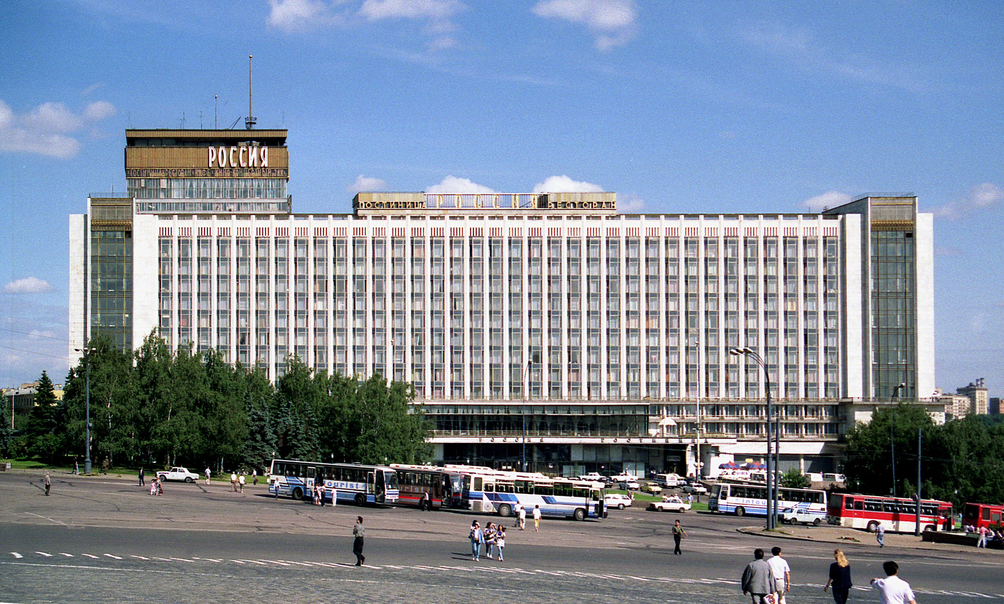 Hotel Rossija (1967-2005)